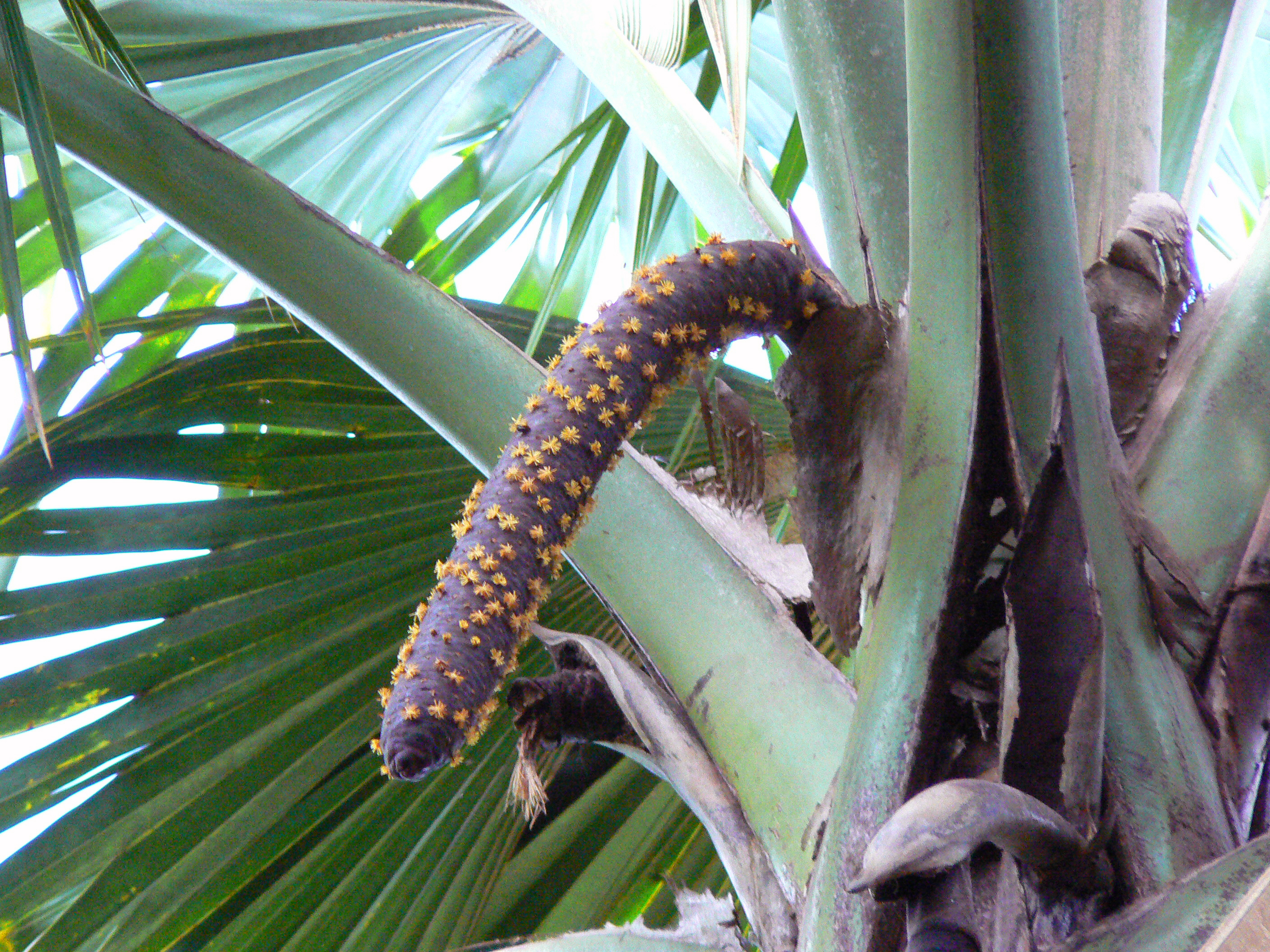 Picture taken by myself in Praslin (Seychelles) in July 2007.